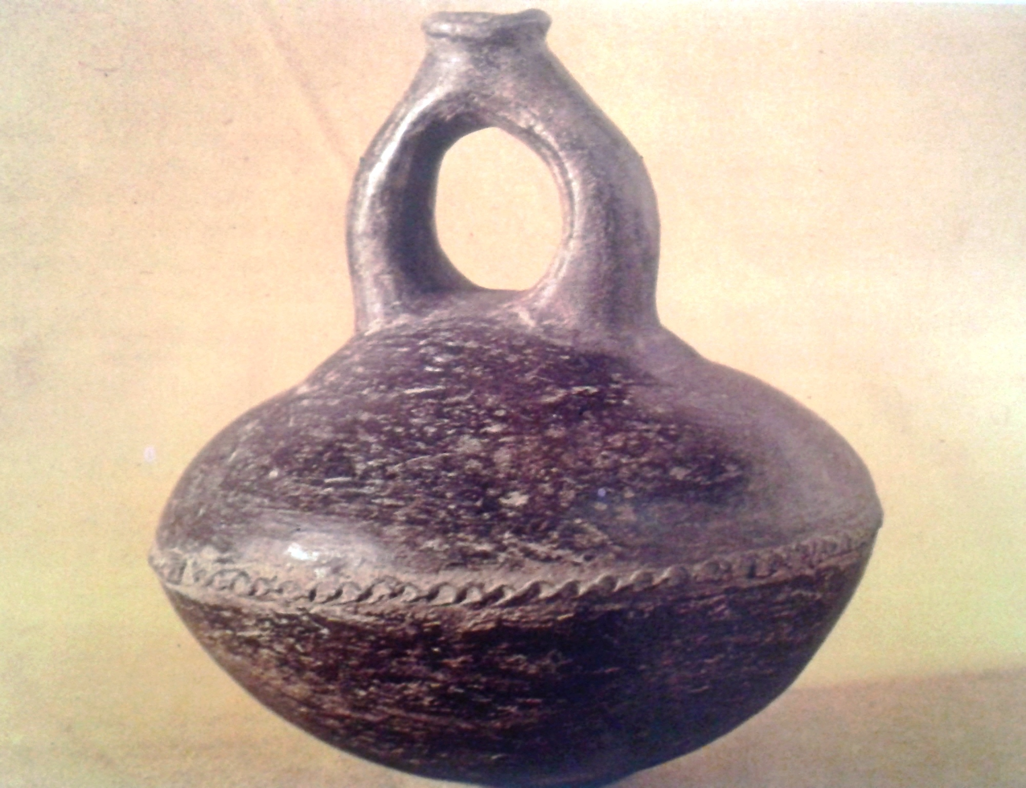 Bottle from Cotocollao